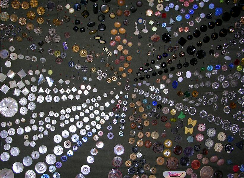 Informal (non-competitive) button collection display